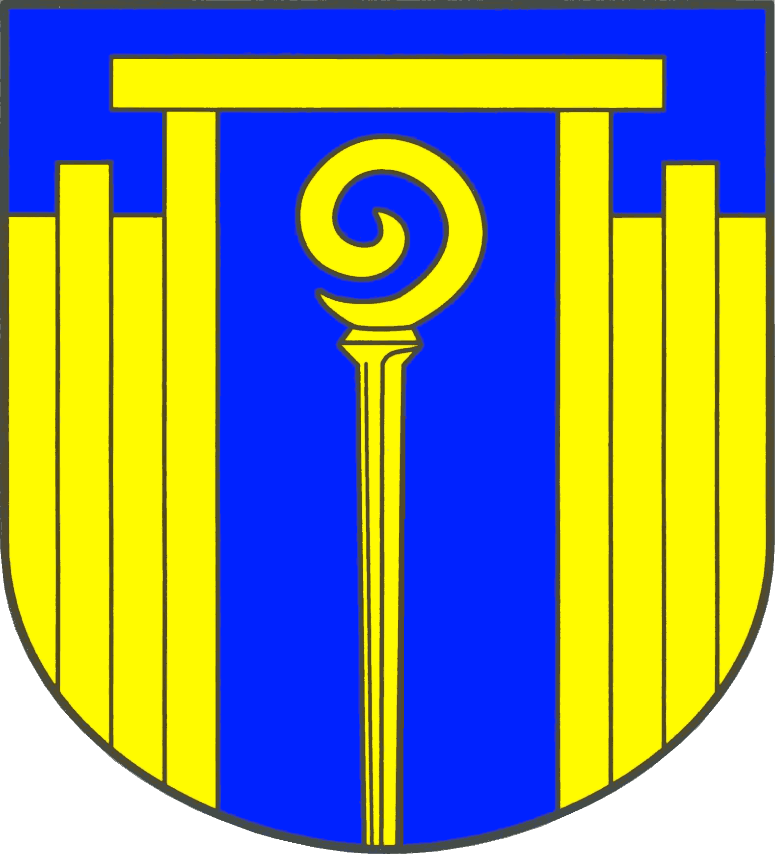 Coat of arms of the municipality Lürschau in Schleswig-Holstein, Germany